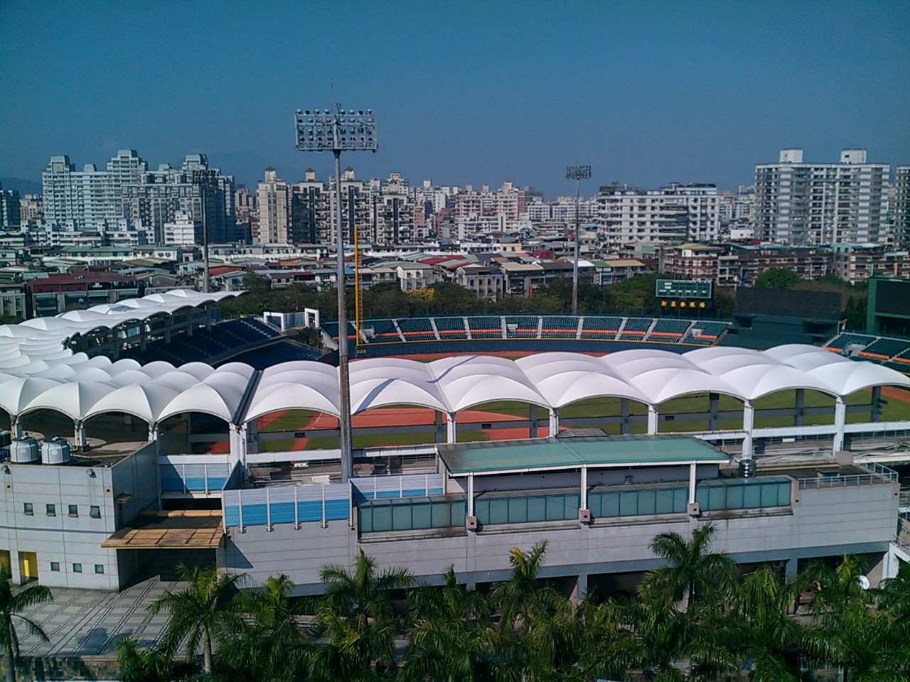 Xinzhuang Baseball Stadium, 2013/01/20 中文（台灣）: 新北市立新莊棒球場，2013-01-20